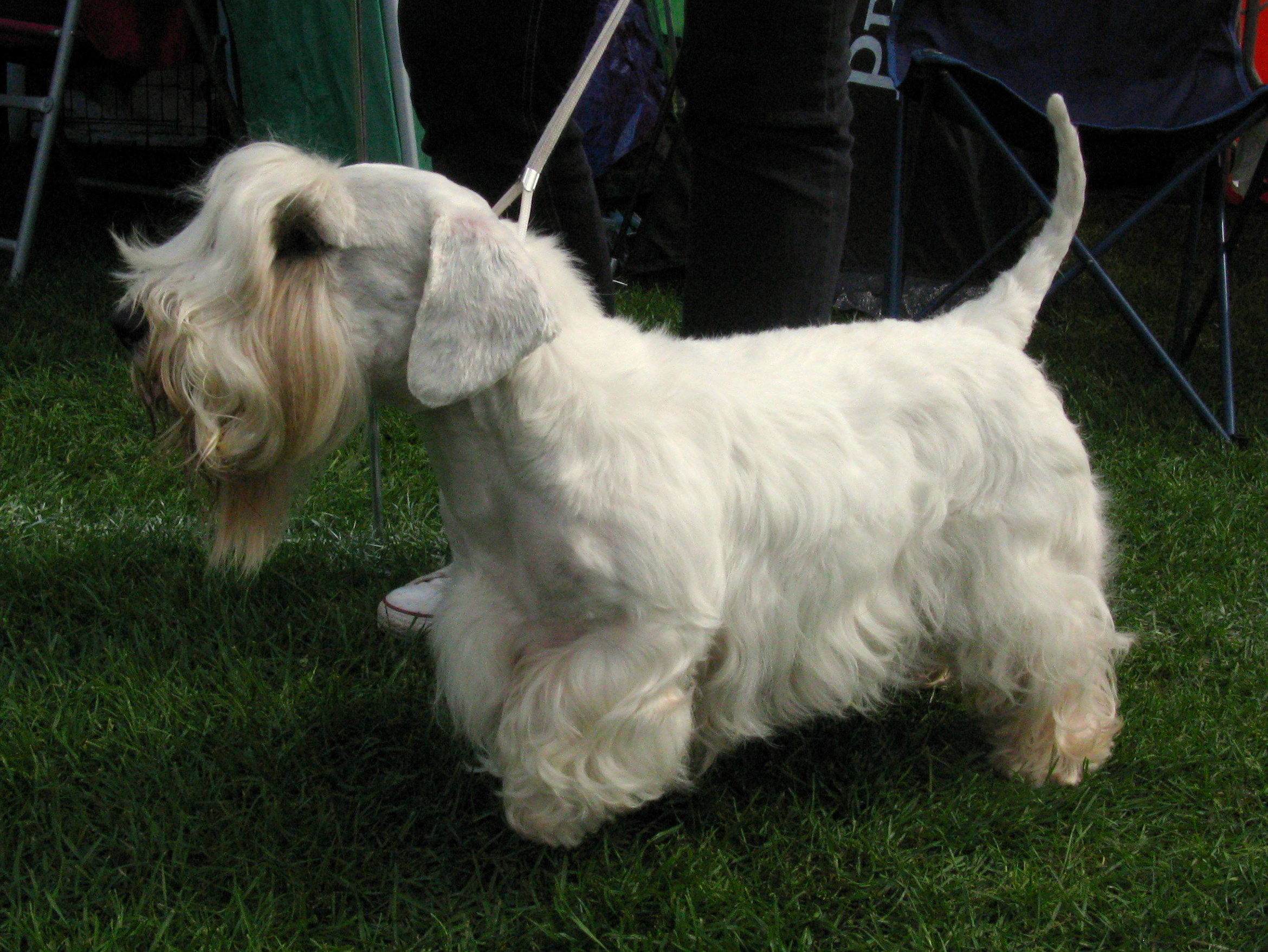 A male Sealyham terrier (Six-Pack Snuffy Smith) in Tallinn, Baltic Winner show 2009